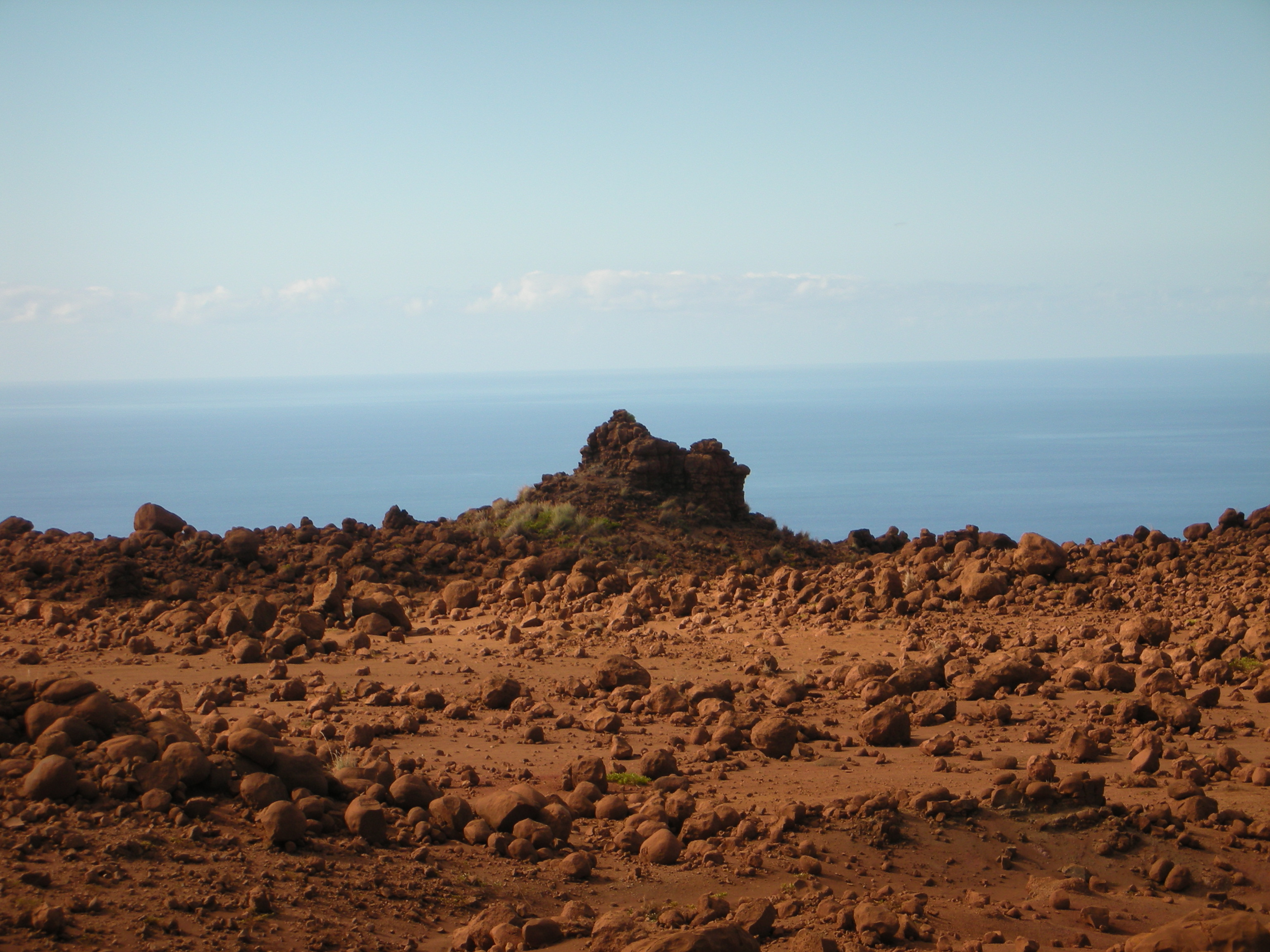 Garden of the Gods2